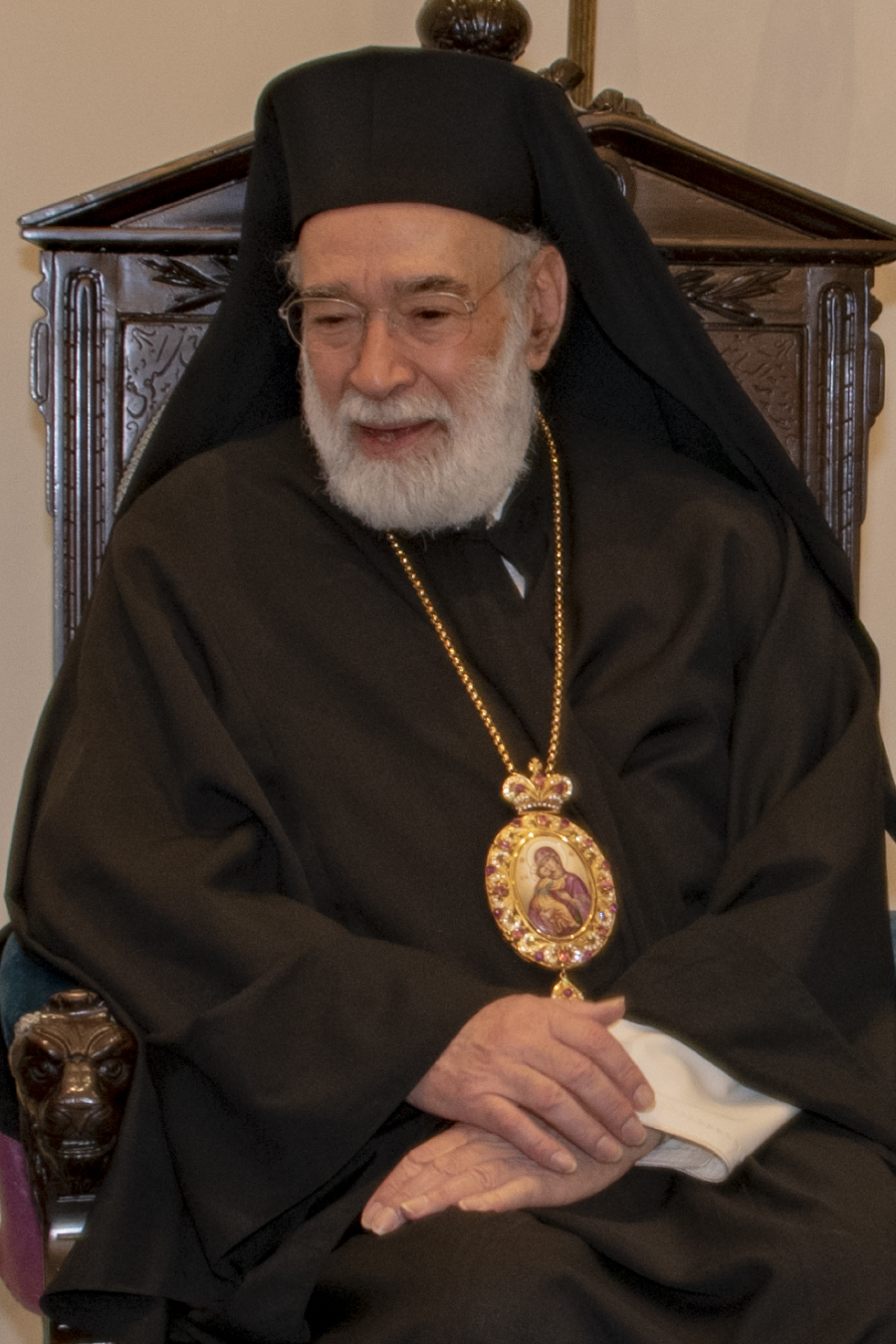 U.S. Secretary of State Michael R. Pompeo and Mrs. Susan Pompeo meet with Greek Orthodox Bishop Elias Audi in Beirut, Lebanon on March 23, 2019. [State Department photo by Ron Przysucha/ Public Domain]